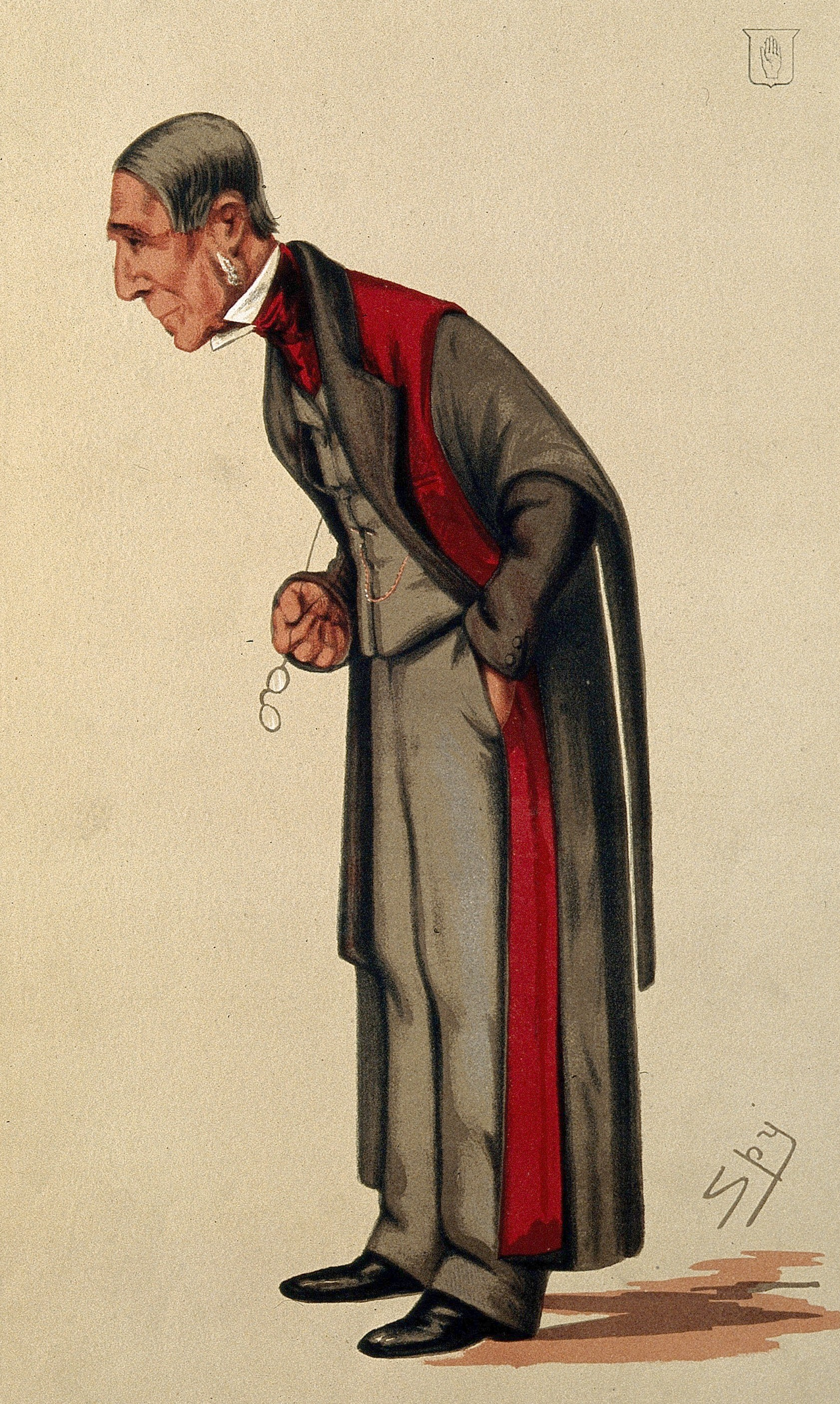 Men of the Day No.122: Caricature of Sir James Paget Bt. Caption reads: "Surgery"